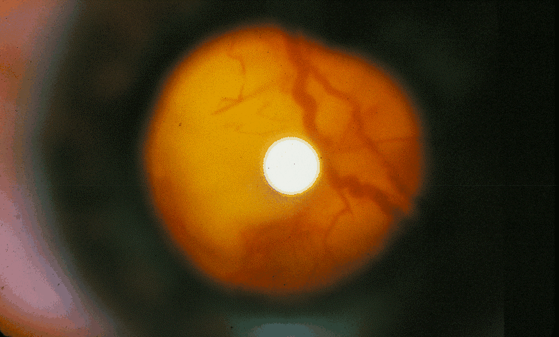 Case 813 photo 1, clinical photo 1: Patient with tuberous sclerosis, ophthalmoscopic examination showed a large tumor extending from the right side of the optic nerve head